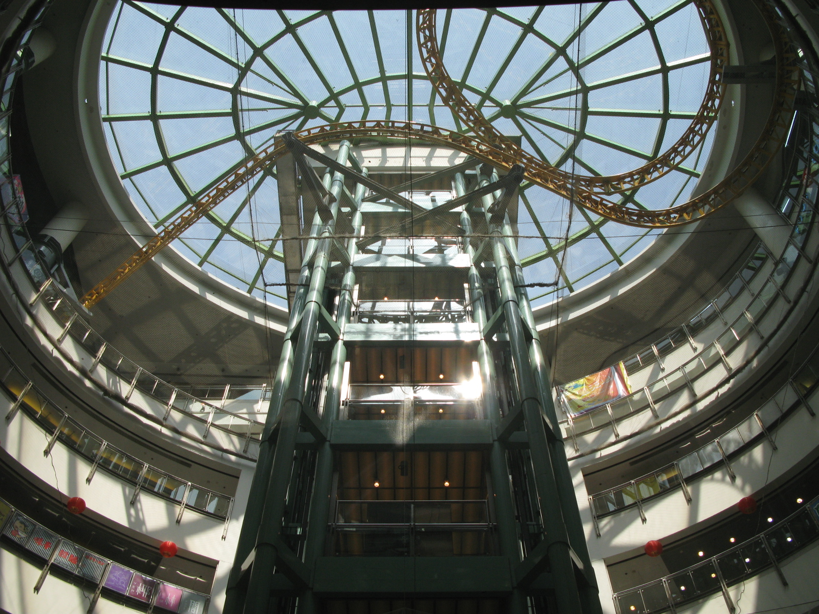 HK Sham Shui Po Dragon CentreVOID